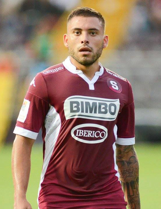 David Ramírez playing as a forward for Deportivo Saprissa on January 17th, 2016.